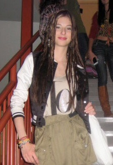 Behind the set of girlfight